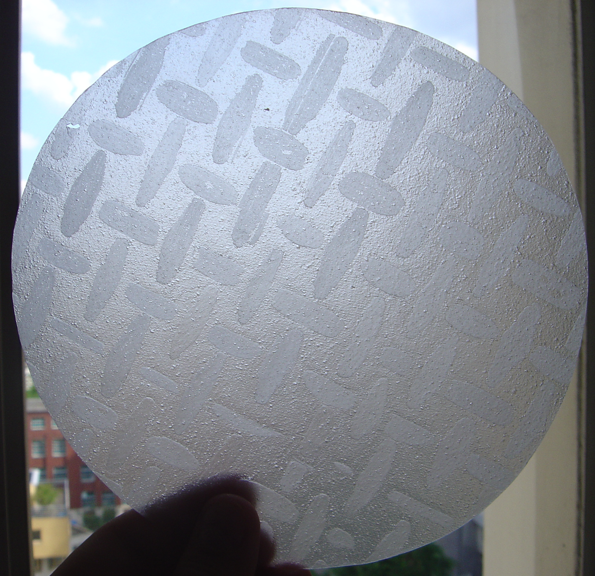 Nems rice wafer